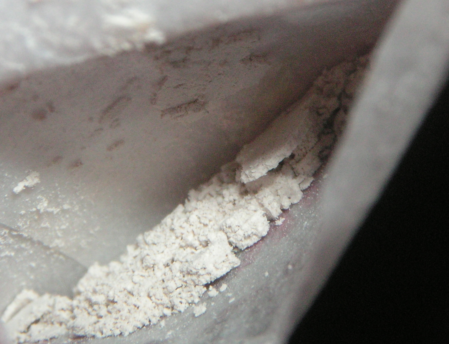 One Stamp of Diacetylmorphine which typically costs $10-$20